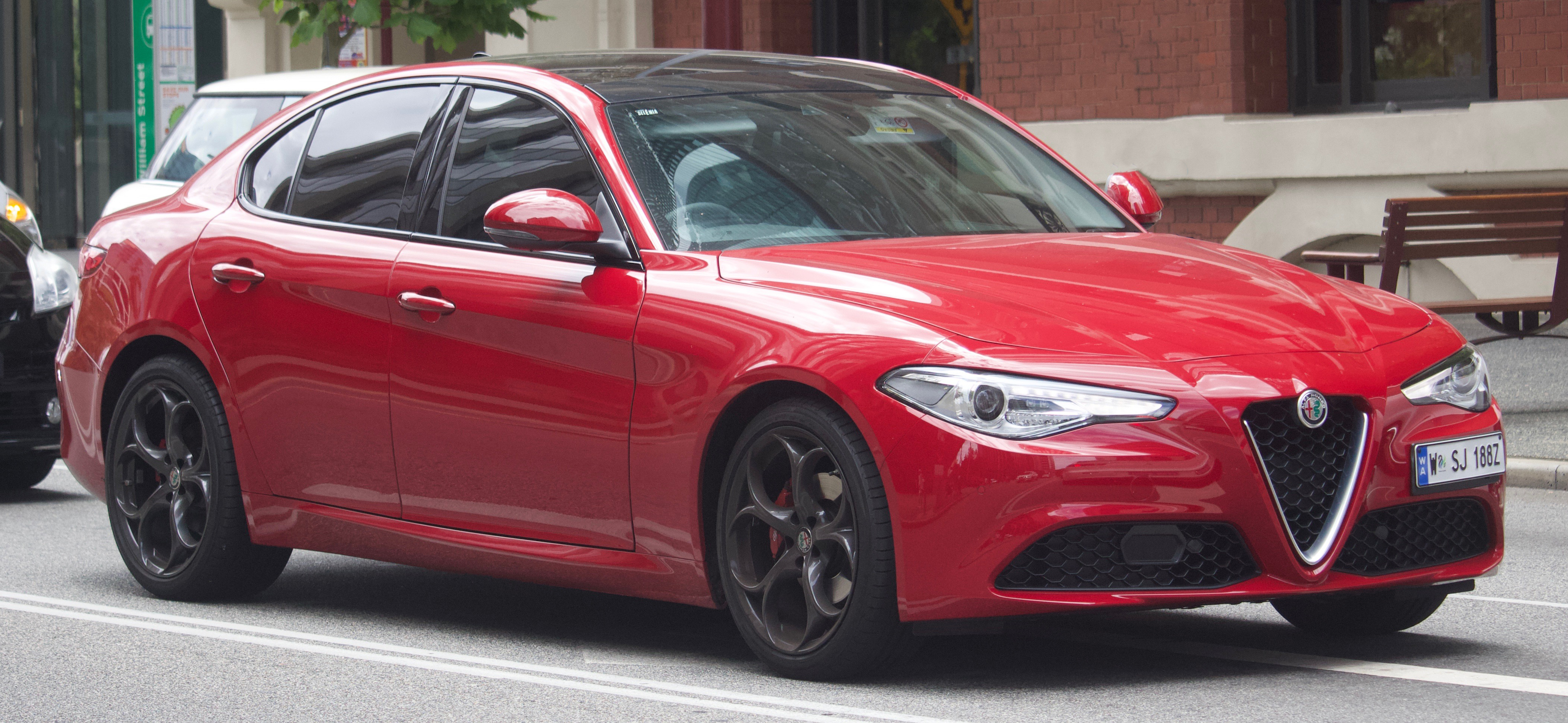 2018 Alfa Romeo Giulia (952) sedan. One of my most favourite Alfa Romeos ever !!. Photographed in Perth, Western Australia, Australia.